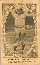 1922 E120 American Caramel Stan Coveleskie